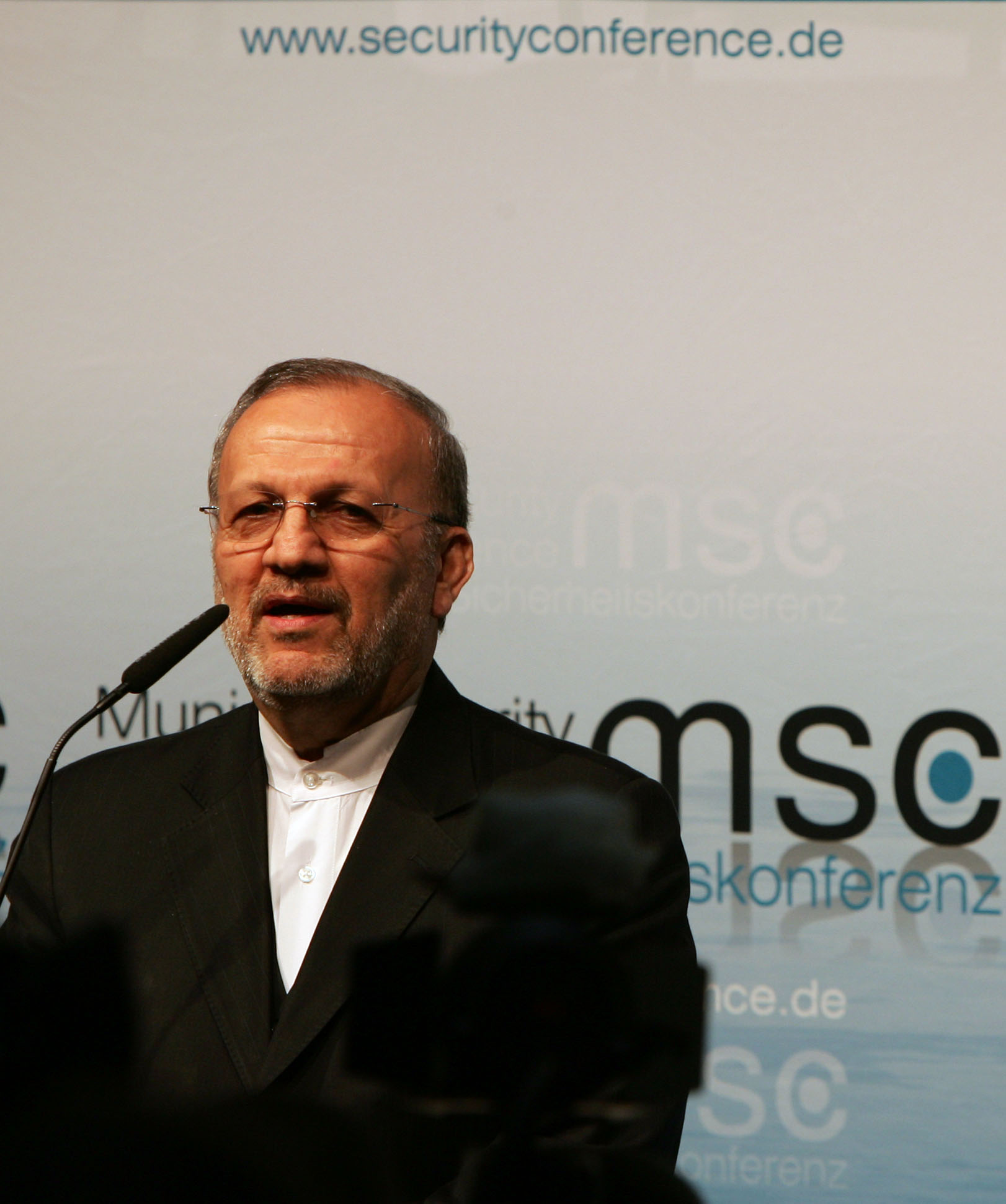 46th Munich Security Conference 2010: Manouchehr Mottaki, Minister of Foreign Affairs, during the Press Conference on Saturday.